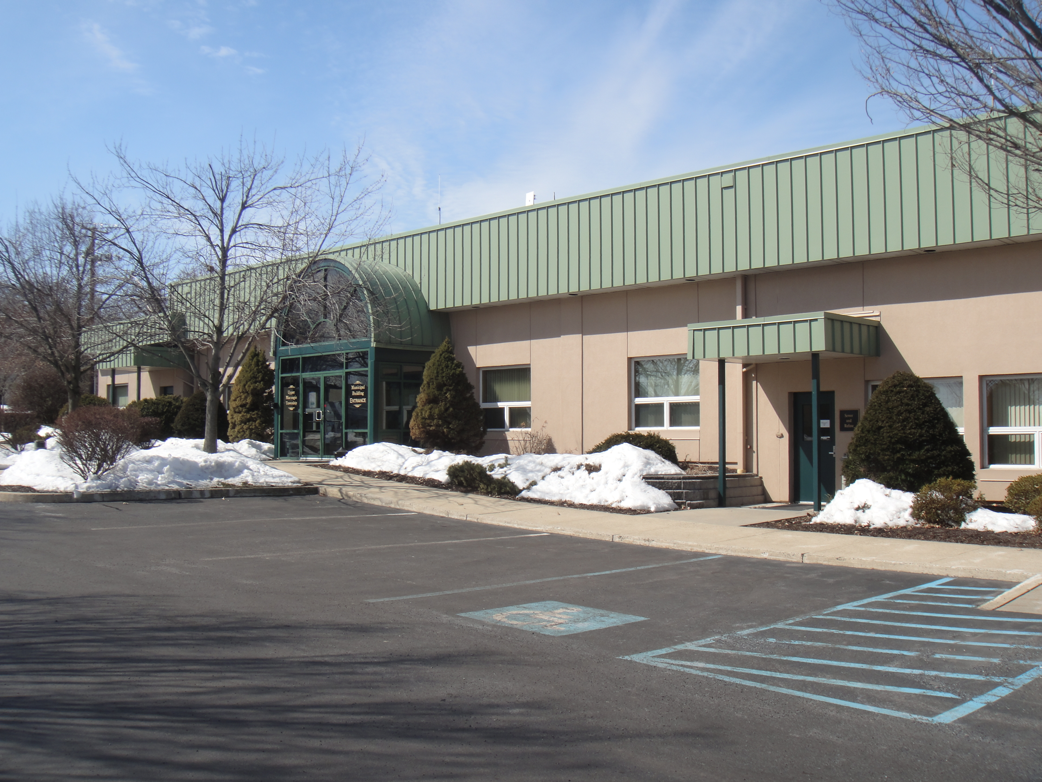 The Upper Macungie Township Municipal Building, Breinigsville, Pennsylvania.